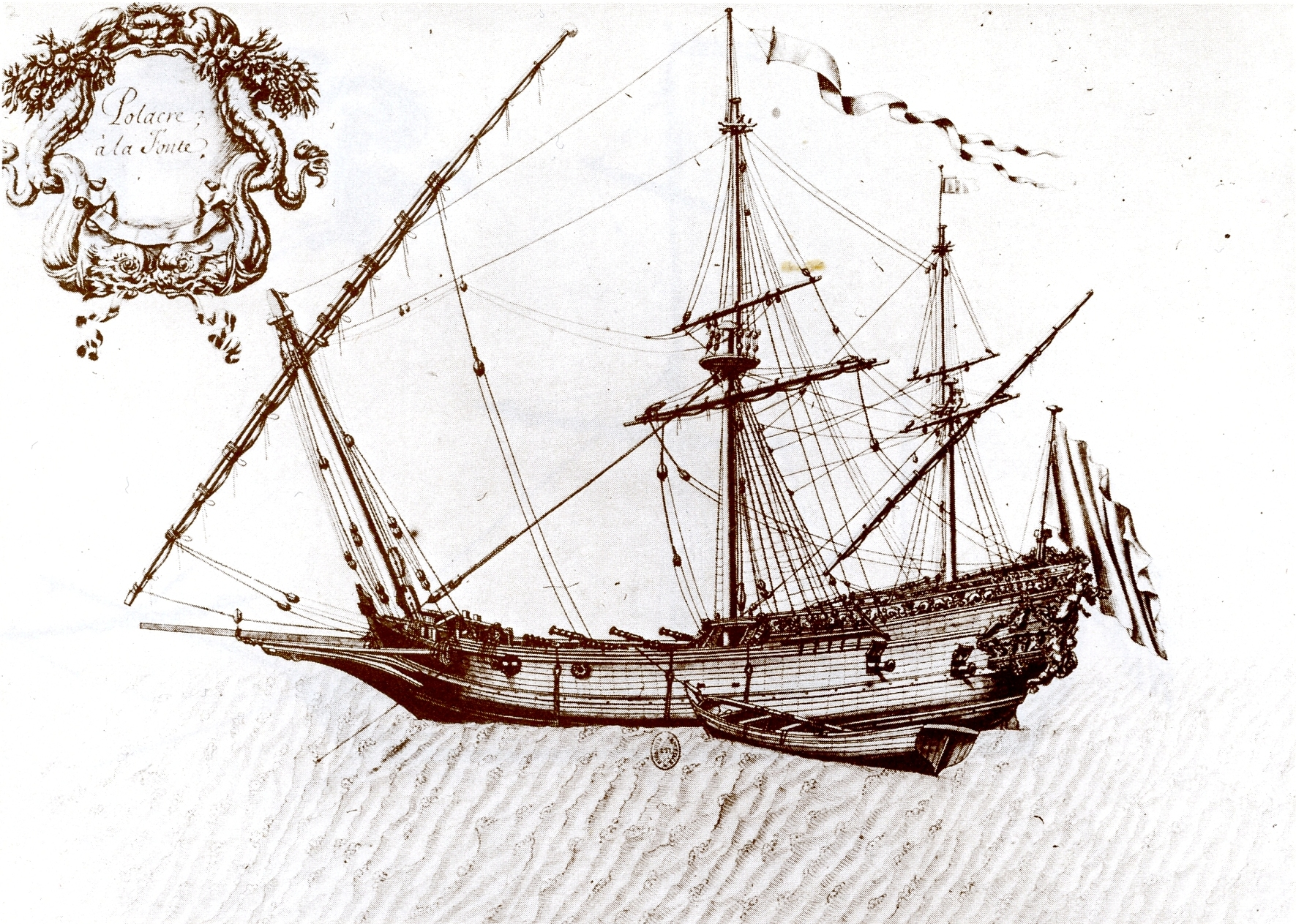 Polacre from "Jean Jouve. Desseins de tous les Bâtiments qui Naviguent sur la la Méditerranée. 1679" (Pl.27)